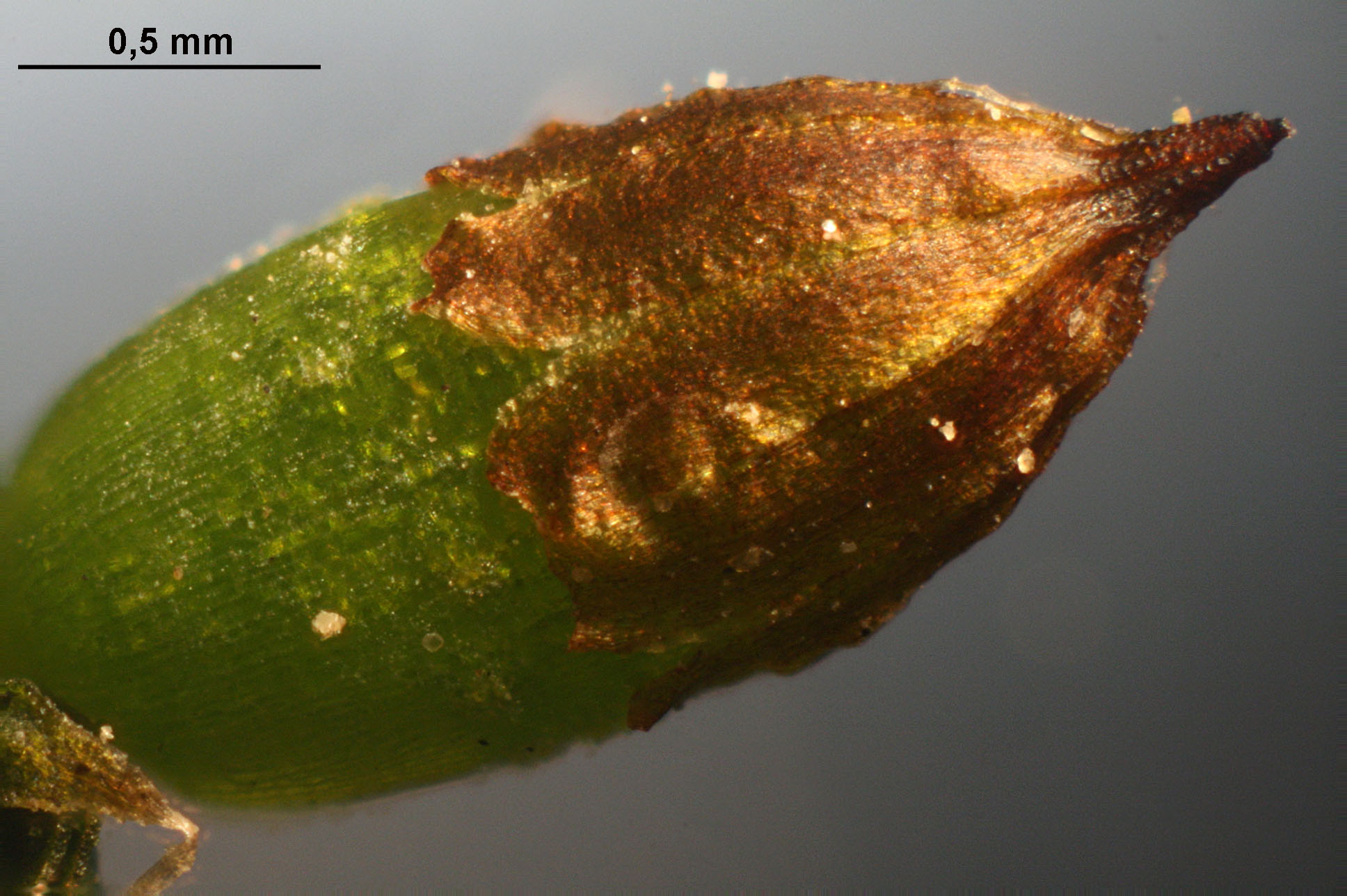 Orthotrichum diaphanum